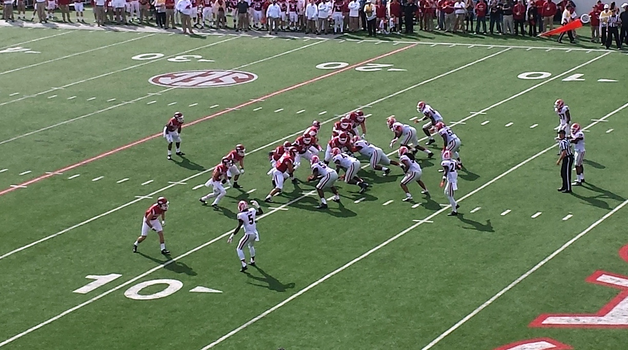 2014 Georgia vs Arkansas at War Memorial Stadium in Little Rock, AR Zoomed in version of File:Georgia at Arkansas 2014, 003.jpg